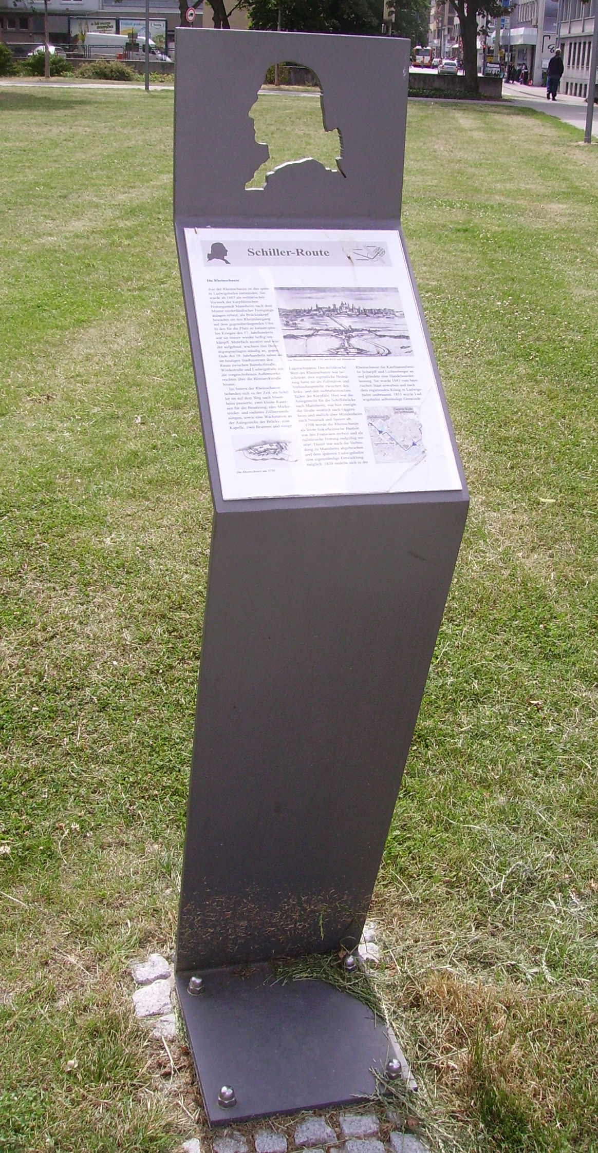 Schillerroute in Ludwigshafen, Germany